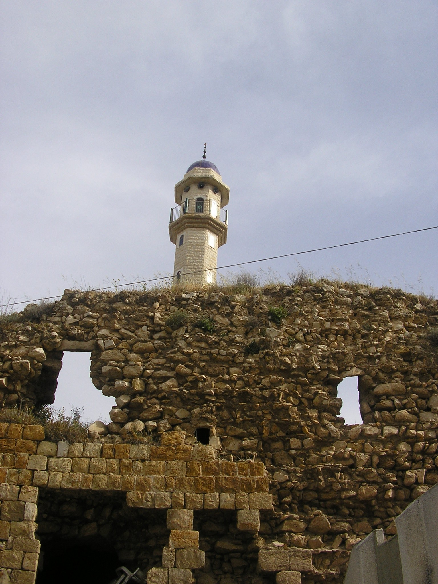 The remnants of the castle in Deir Hanna built by Daher El-Omar